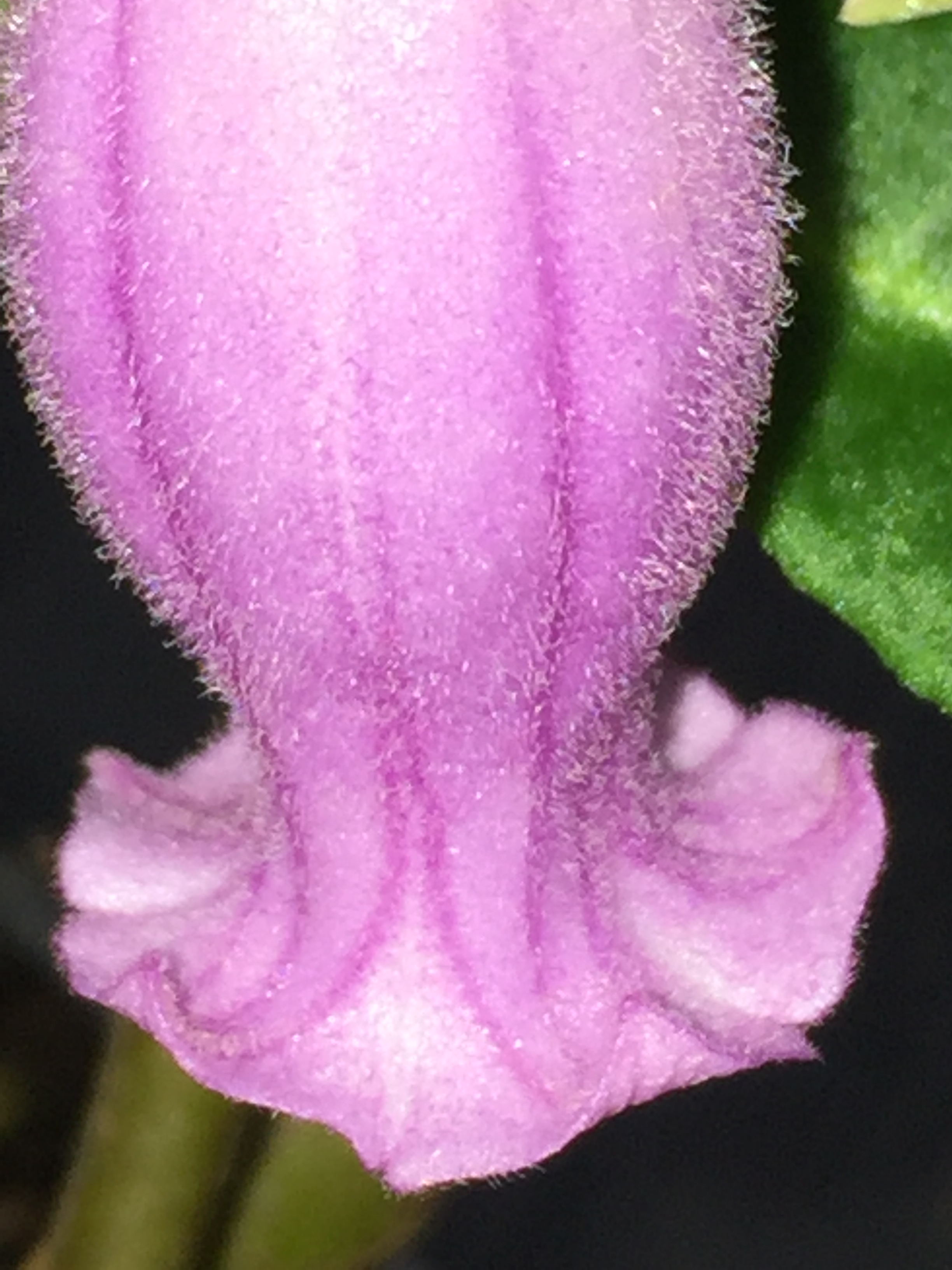 Detail of exterior of lower corolla tube and corolla limb of unusually pale single flower of Latua pubiflora ( Griseb. ) Baillon ( family : Solanaceae ), showing deeper magenta veins ( 3 per corolla lobe ). Five floral peaks between five corolla lobes demarcated by veins / striations.